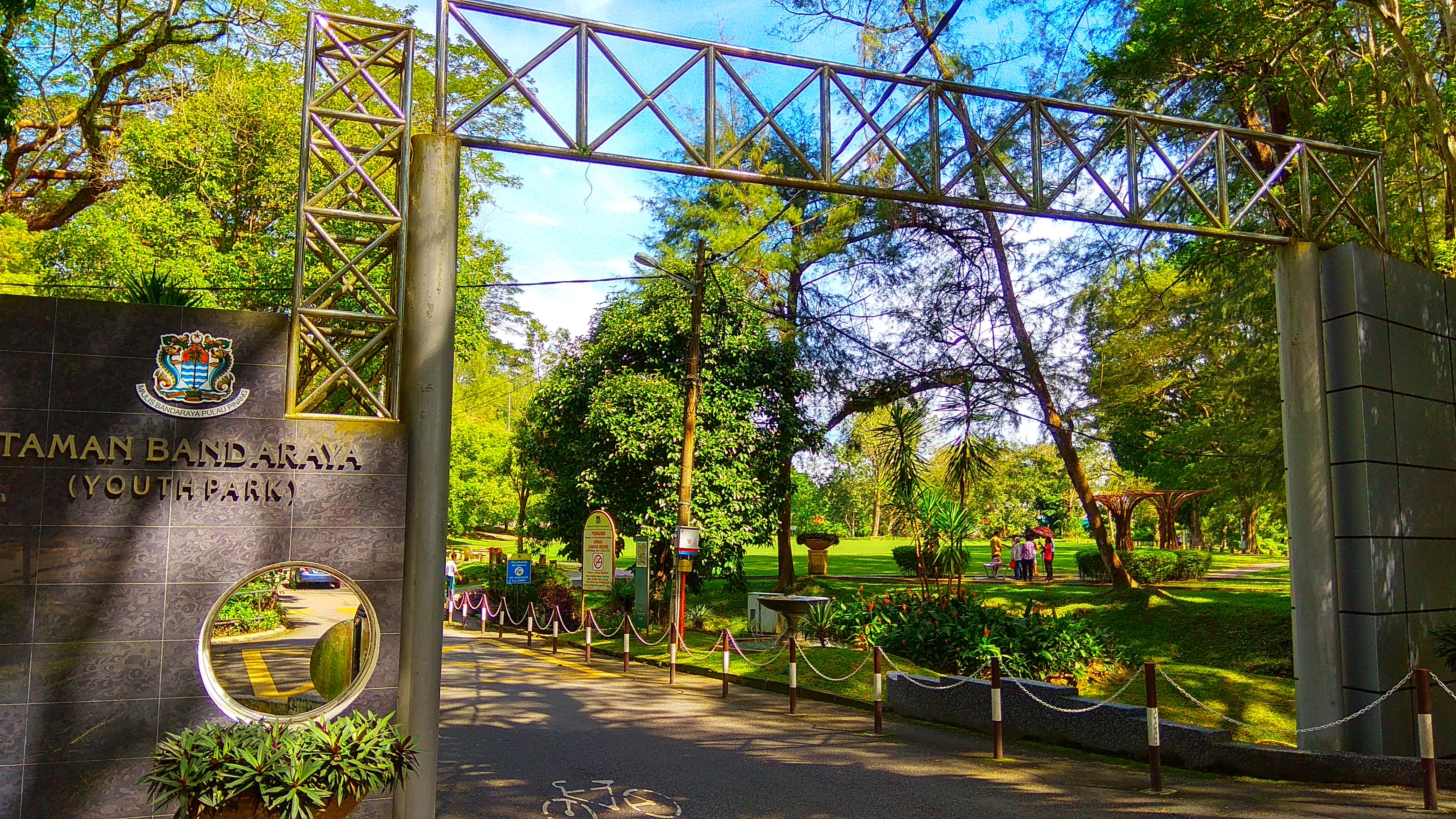 Entrance to Penang City Park in George Town